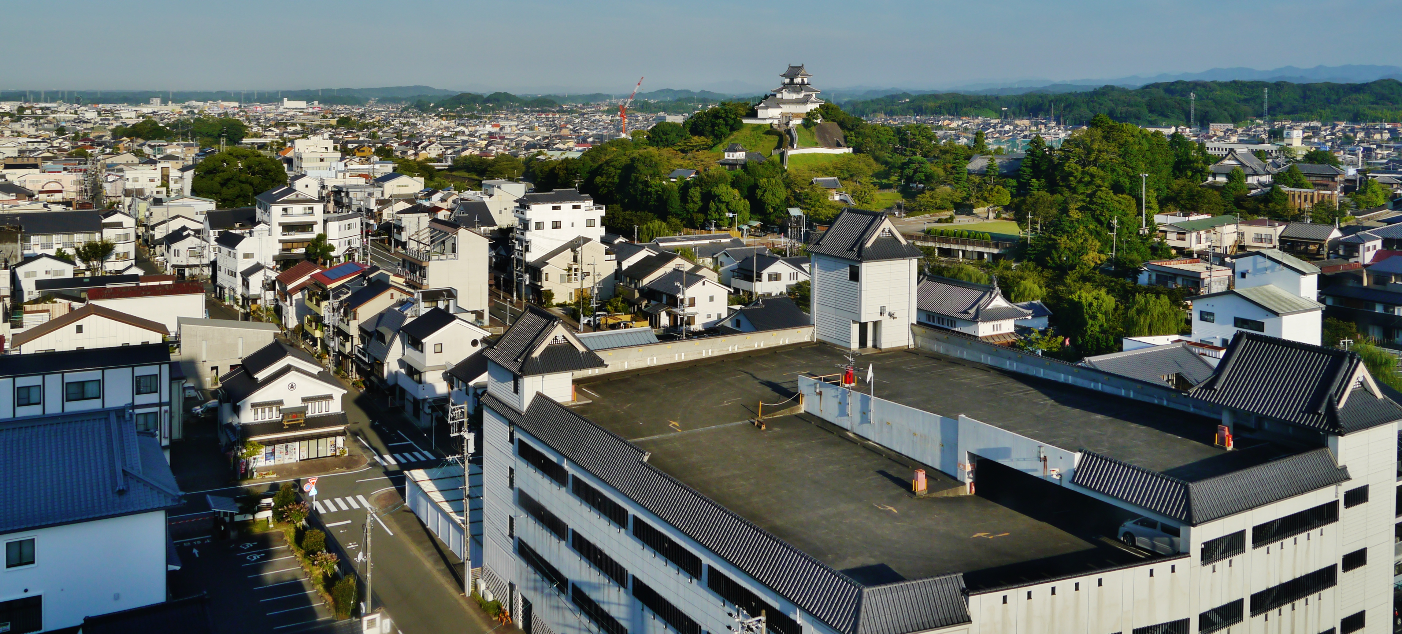 View from Dormy Inn Hotel, Kakegawa, Prefecture of Shizuoka, Region of Chubu, Japan